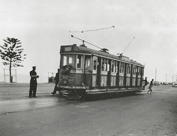 Tram making the last run for Rockdale to Brighton-Le-Sands